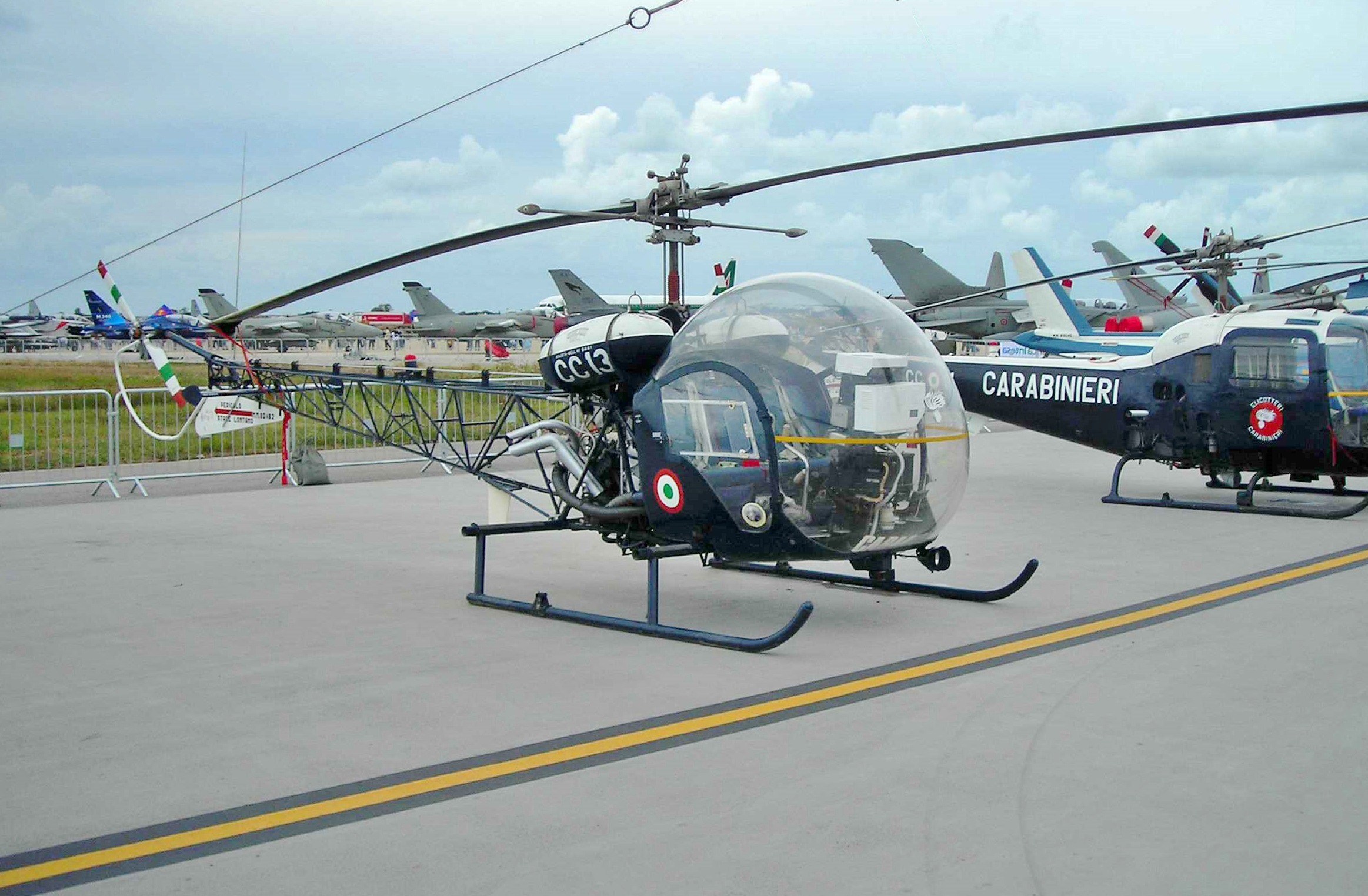 Bell 47 of Carabinieri. Picture taken during "Giornata Azzurra" 2006 (Italian Air Force airshow) at Pratica di Mare AFB, Italy.